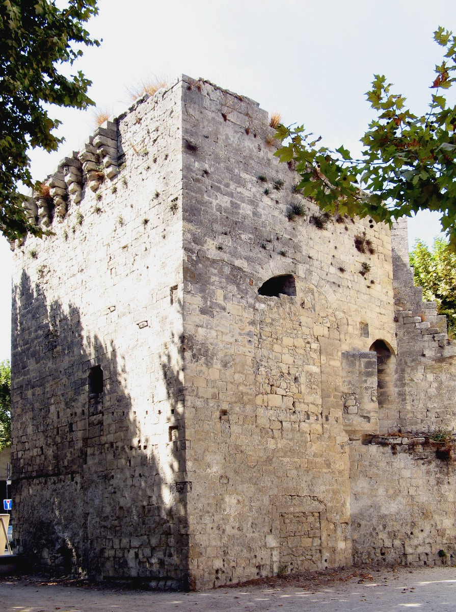 Tower of La Roquette in Arles